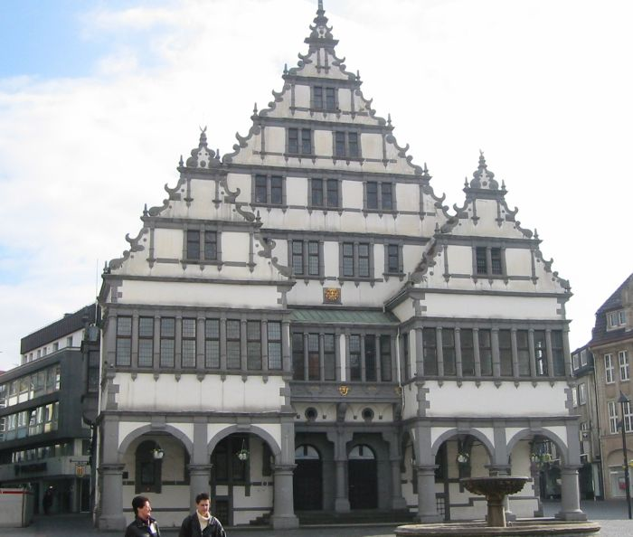 historical city hall Paderborn